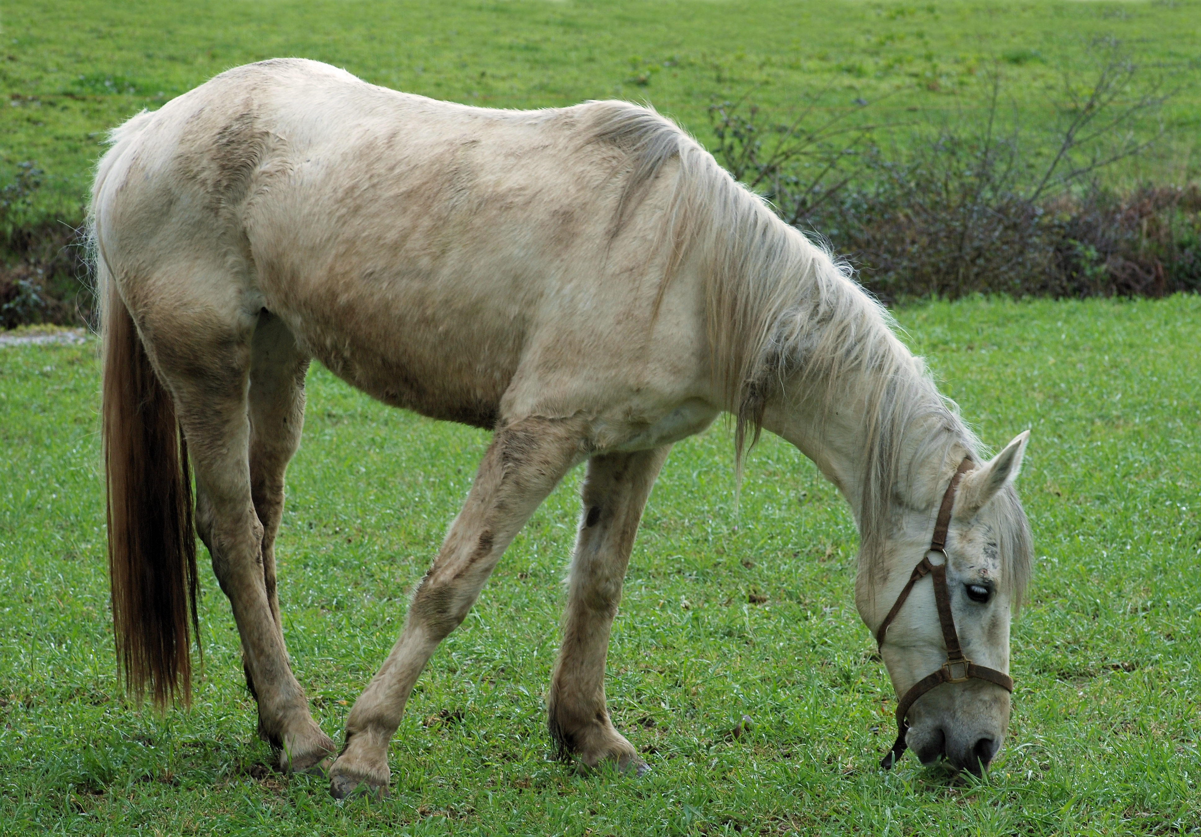 A horse of the Lusitano race